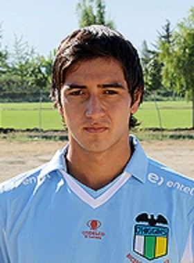 Futbol